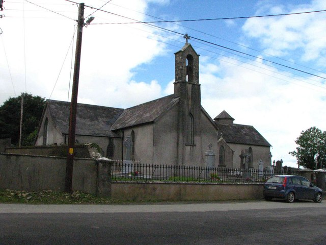 Castlewarren Church A fine Church which is in constant use.